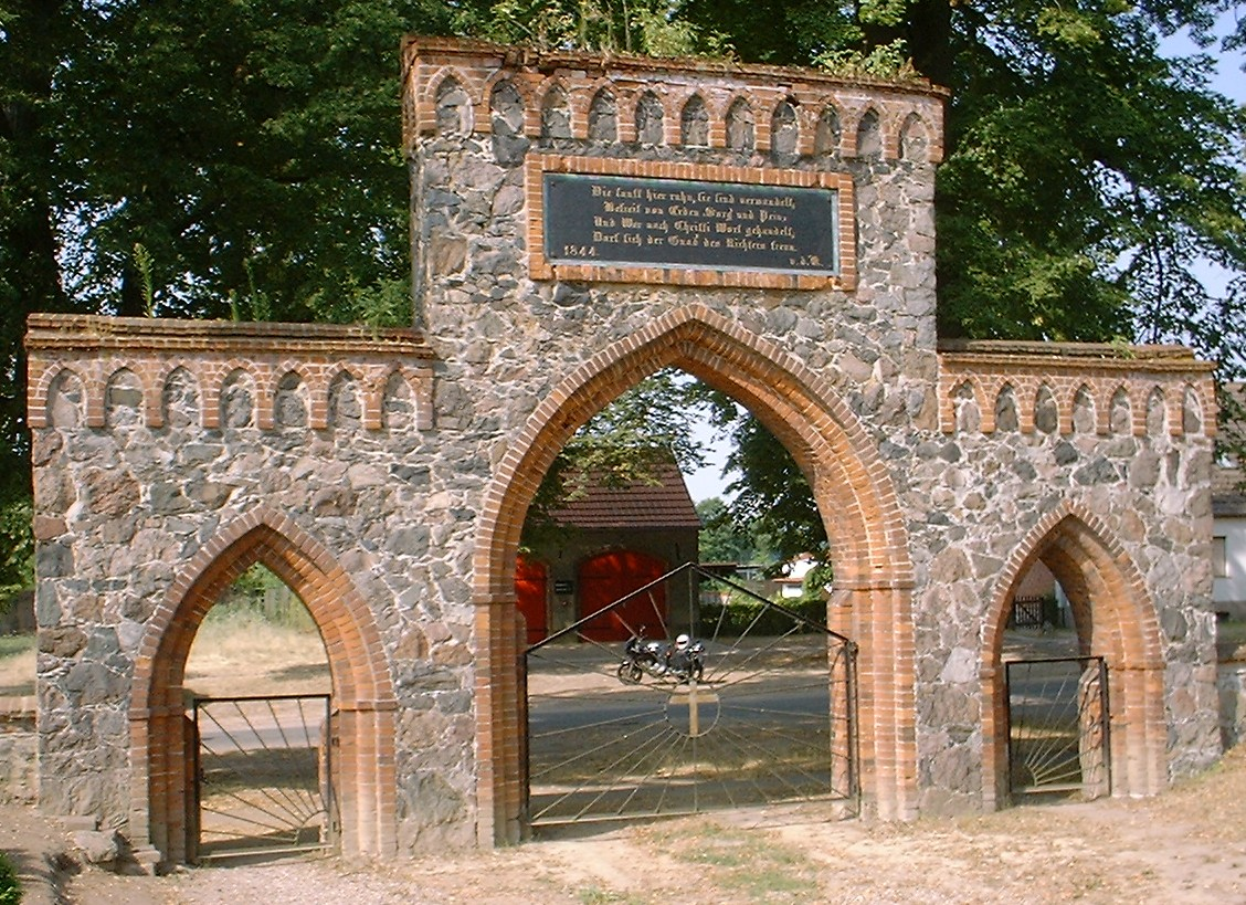 Portal at the churchyard in Neuruppin-Karwe in Brandenburg, Germany